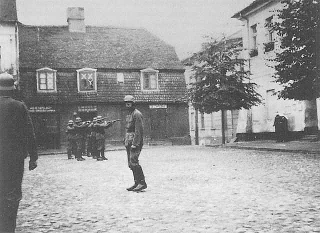 Execution of Polish hostages in Konin in Poland during German agression in Poland 1939 in the beginning of World War II